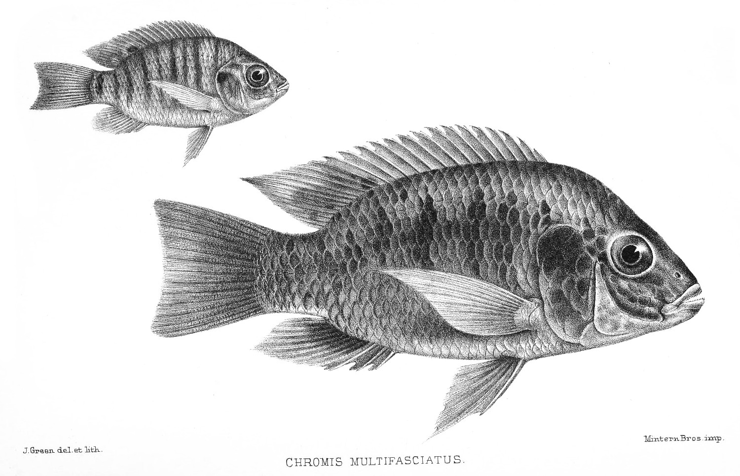 Chromis busumanus=Sarotherodon galilaeus